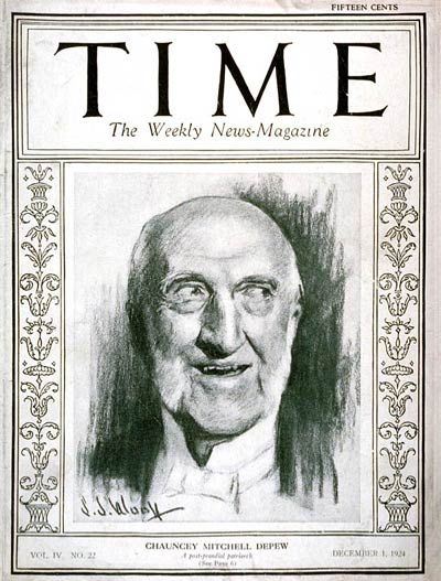 TIME Magazine Cover Featuring Chauncey Depew (1 Dec 1924)